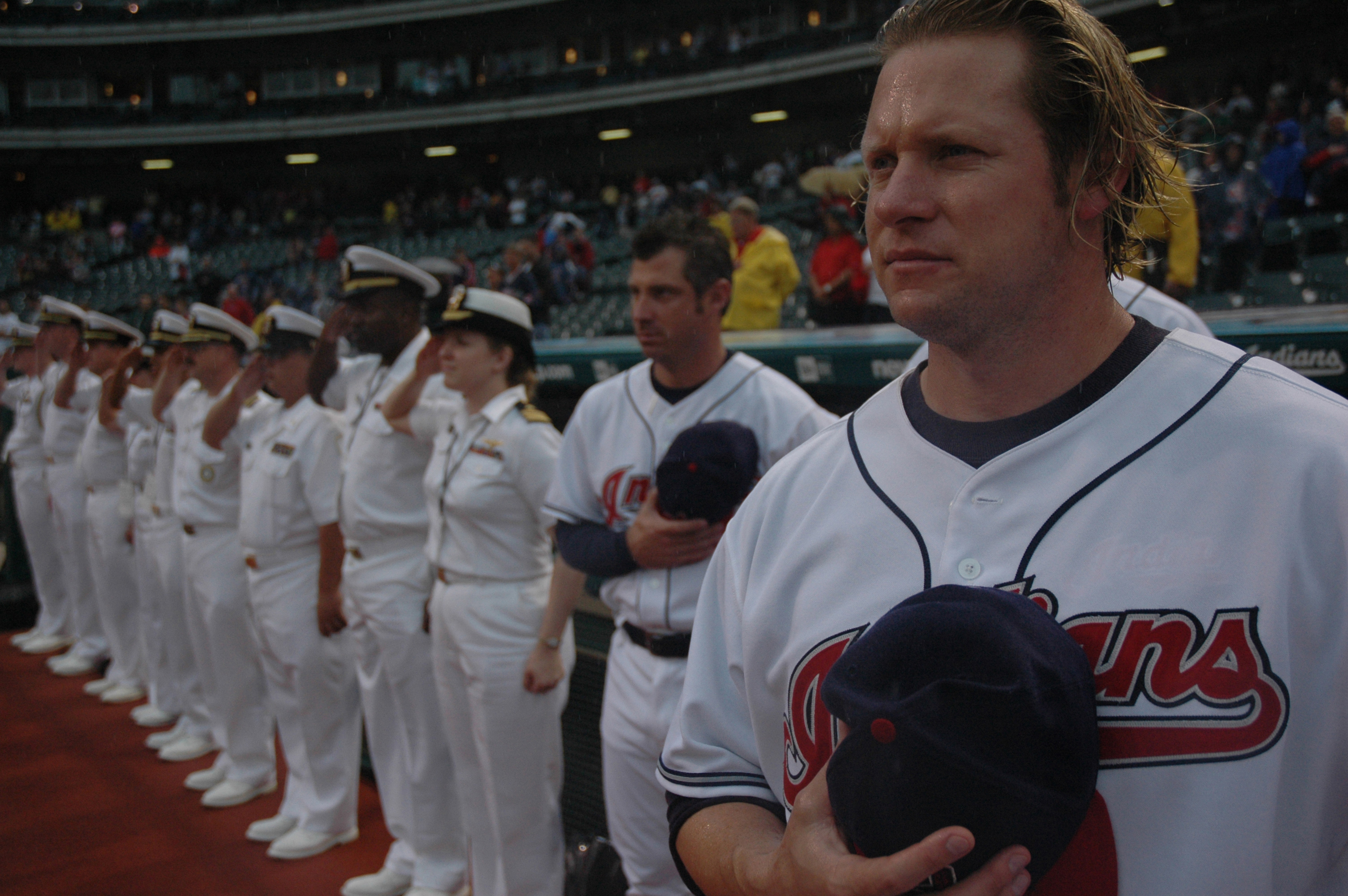 Jason Michaels of the Cleveland Indians with U.S. Navy sailors prior to a baseball game at Jacobs Field in Cleveland.